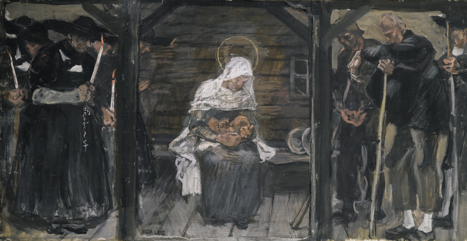 Albin Egger-Lienz, 1904, Gouache on canvas